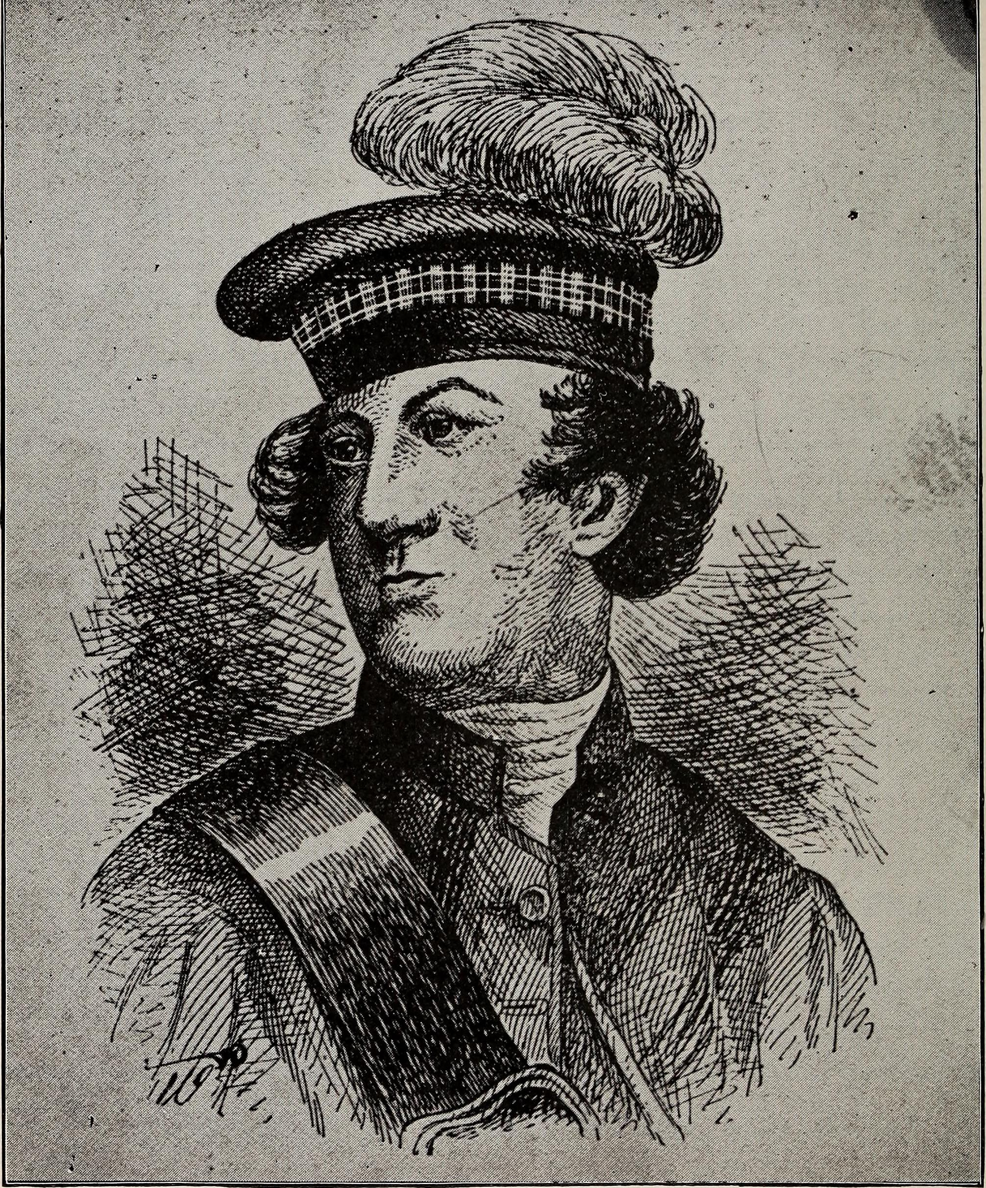 John Murray, 4th Earl of Dunmore, the last Colonial Governor of Virginia Title: Ohio archæological and historical quarterly Year: 1887 (1880s) Authors: Ohio State Archaeological and Historical Society Subjects: History Archaeology Publisher: Columbus : Published for the Society by A.H. Smythe Text Appearing Before Image: the journey during the summer,spending considerable time at Crawfords place, and at Pitts-burg.^^ Thus Crawford was visited in his distant, humble home,by the two most distinguished men then living in America.Washington again wrote to Crawford—this time on the 25th ofSeptember, 1773—touching the location of lands, Down theOhio, below the mouth of the Scioto, to which both were entitledUnder a proclamation of the year 1763. By Mr. Leet I in-formed you, continued Washington, of the unhappy cause 20 Bedford county, as then organized, was taken from Cumberland,March 9, 1771. 21 Westmoreland was taken from Bedford, February 26, 1773. SeeWashington-Irvine Corr. p. 114. 22 Sparks Writings of Washington, Vol. II, p. 373. 23 Washington-Crawford Letters, p. 29. In 1773, Lord Dunmore, thegovernor of Virginia, paid a visit to Crawford at his house upon theYoughiogheny, the occasion being turned to profitable account by bothparties. Washington-Irvine Correspondence, p. 115. ^^^^^^^^^^^■^^^^ Text Appearing After Image: THE EARL OF DUNMORE.The last Colonial Governor of Virginia. From a very fine portrait in the State I,ibrary Gallery at Richmond, Va.